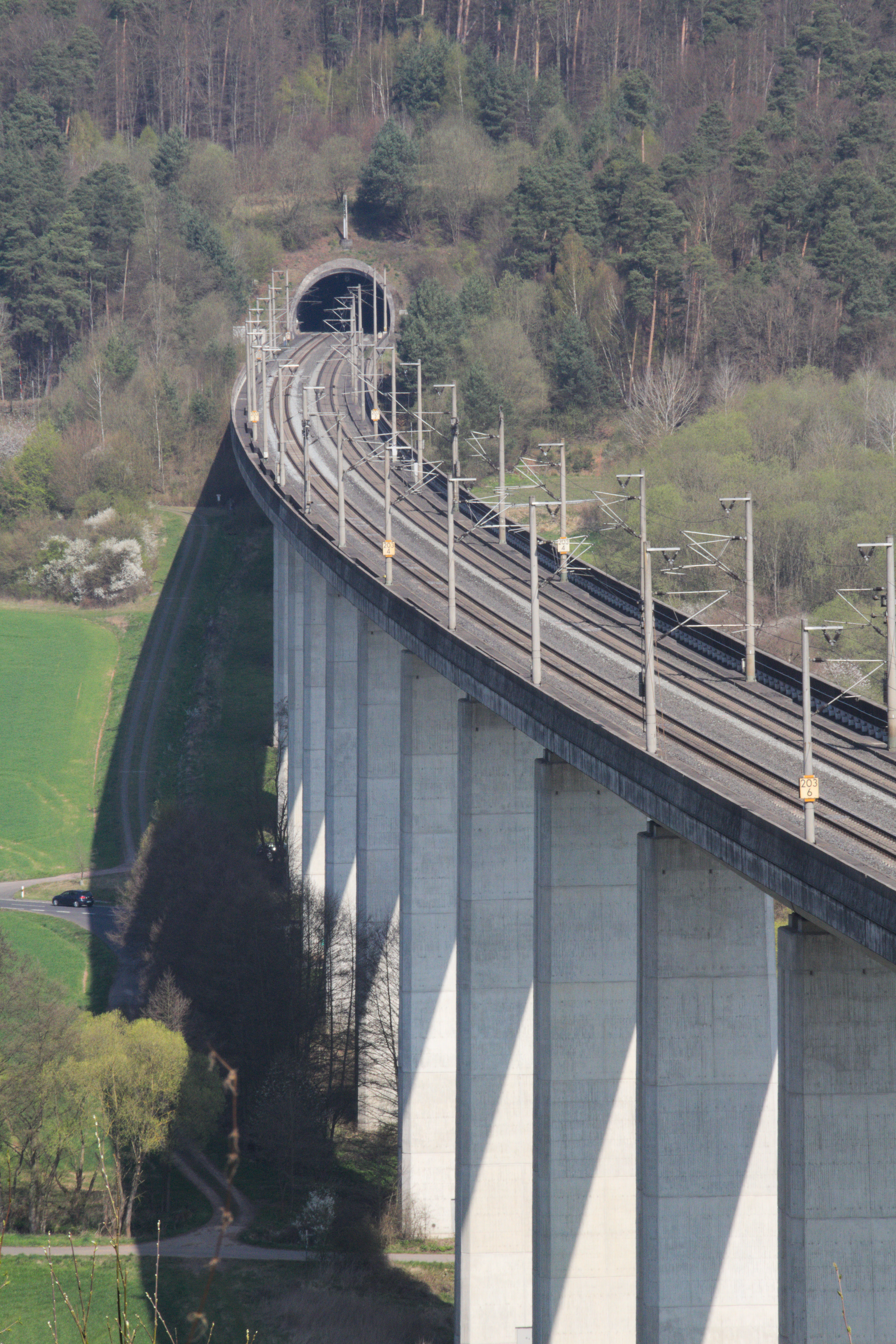 Concrete railway bridge "Aula-Talbruecke" over Aula River and tunnel "Kirchheimtunnel" near, Niederaula, Hesse, Germany